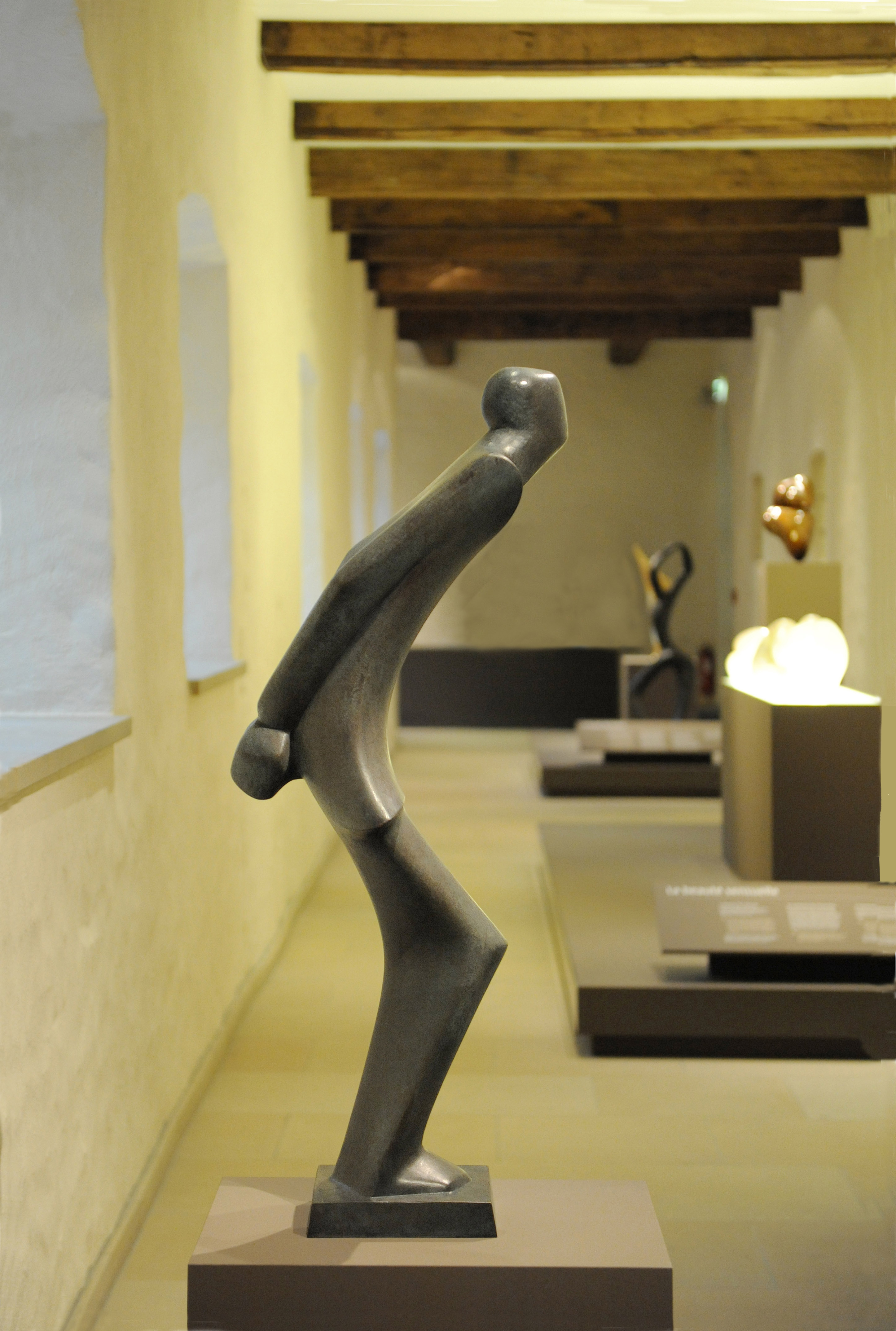 Le prisonnier politique by Lucien Wercollier in the Déambulatoire of the Centre culturel de rencontre Abbaye Neumünster in Luxembourg.